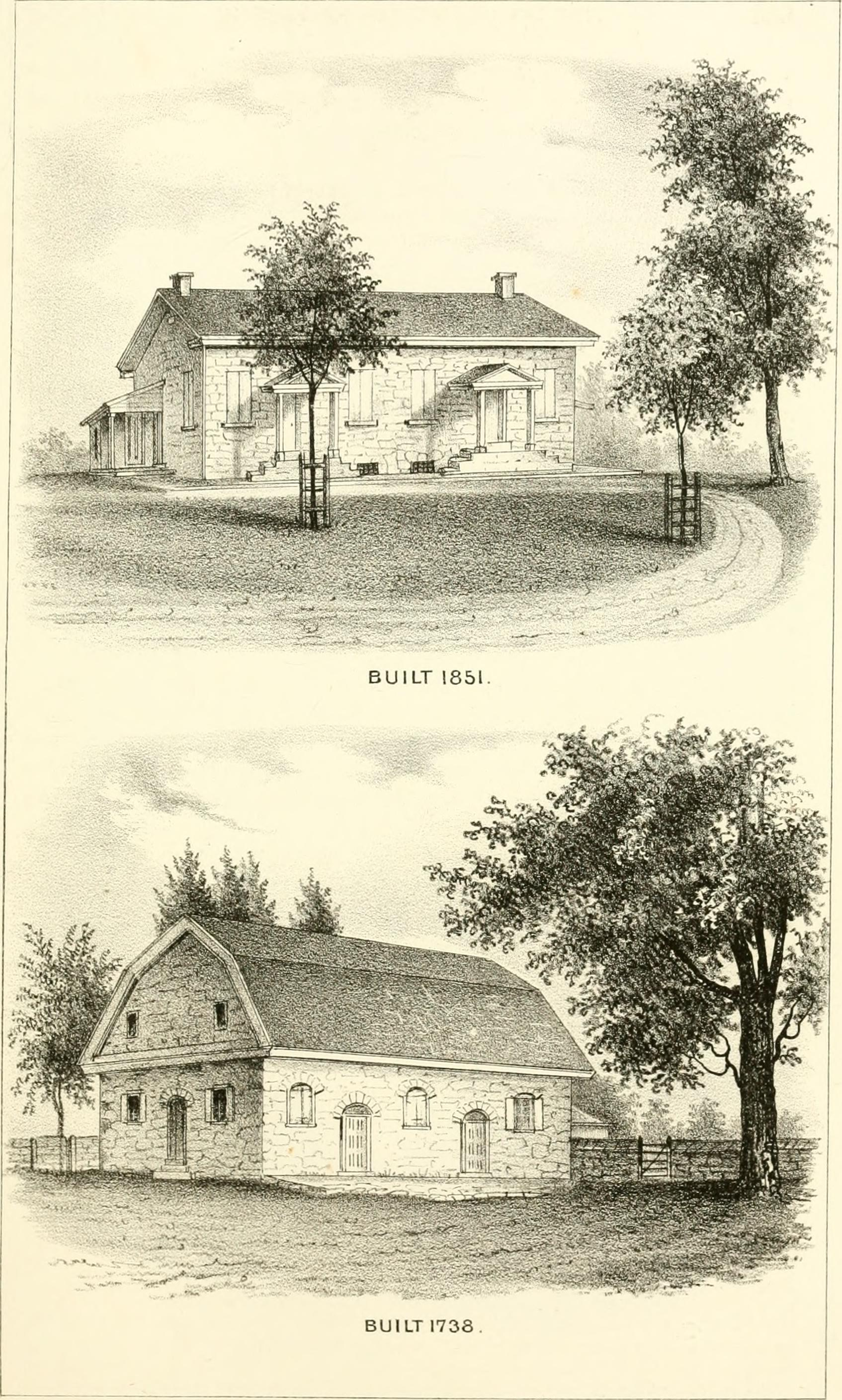 Title: History of Delaware county, Pennsylvania, from the discovery of the territory included within its limits to the present time, with a notice of the geology of the county, and catalogues of its minerals, plants, quadrupeds, and birds Year: 1862 (1860s) Authors: Smith, George, 1804-1882 Delaware county institute of science, Media, Pa Subjects: National history Publisher: Philadelphia, Printed by H. B. Ashmead Text Appearing Before Image: lenyarn, while those at Wallingford manufacture cotton goods.Beattys edge tool manufactory is also located in Springfield. The old Springfield Friends Meeting-house, taken down someyears since, though built in 1738, presented a venerable appear-ance. An effort has been made to preserve its general aspectand contrast it with the present edifice in the annexed lithograph. It does not appear that Springfield was fully organized as atownship prior to 1686, though Robert Taylor, one of the firstsettlers, had received the appointment of supervisor fromChester Creeke to Croome Creeke, early in 1684. Remarkable phenomena are frequently connected with thedischarge of the electric fluid in the shape of lightning, but itrarely occurs that a case is surrounded with so many singularcircumstances as the one I am about to notice, which happenedon the 3d of November, 1768, and which is copied, with someabridgment, from the Pennsylvania Chronicle. At about seven oclock in the morning Mr. Samuel Leviss Text Appearing After Image: DraymbyC PTholey. Bowea&Co.lthPhilada FRIENDS MEETING H OU SES.S PRI N G F I ELD , 1738, 1851.